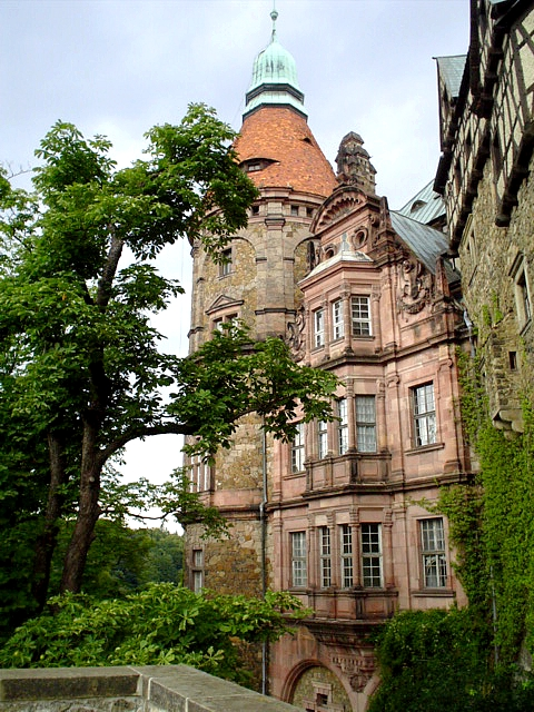 Ksiaz - castle